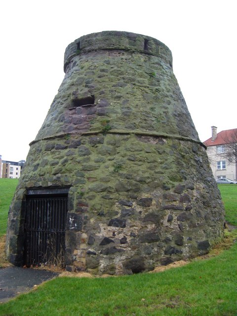 16thC doocot, Lochend Park, Edinburgh